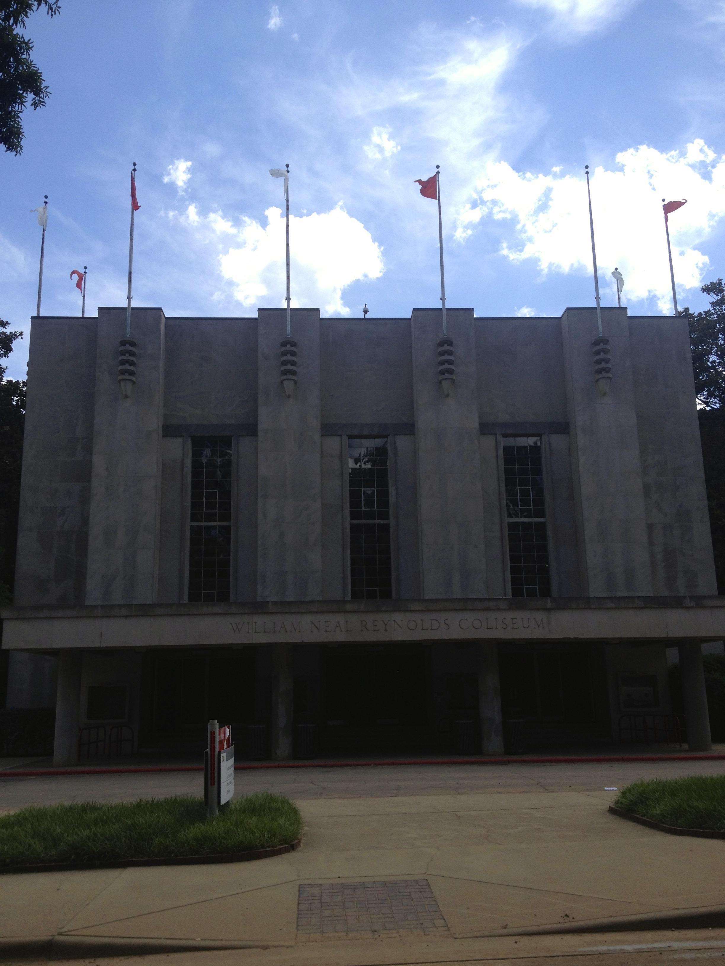 Reynold's Coliseum